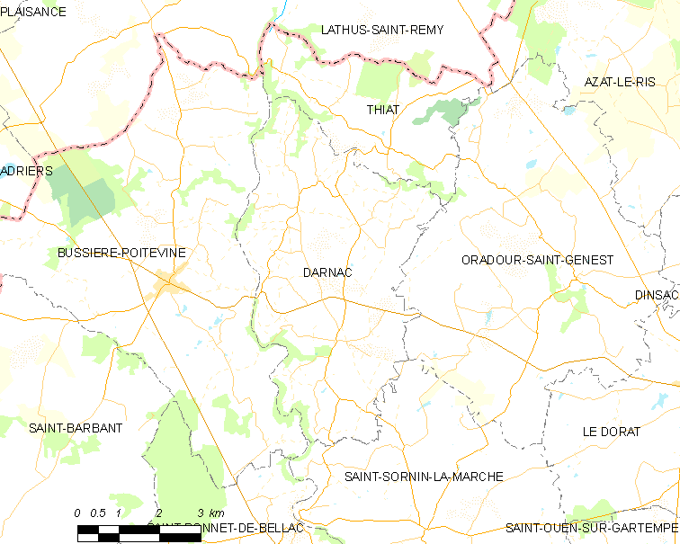 Map of French municipality Darnac